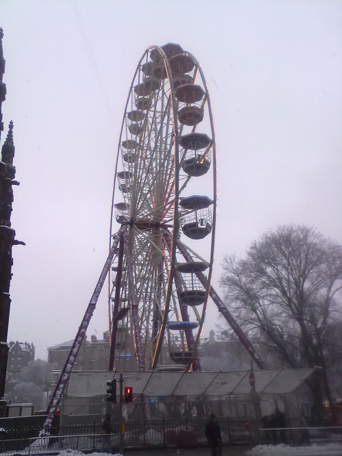 Funfair rides, still operating, in Princes Street Gardens, Edinburgh.